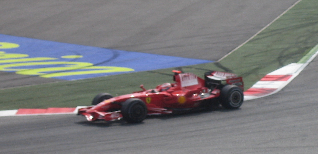 Kimi Räikkönen driving for Scuderia Ferrari at the 2008 Spanish Grand Prix.